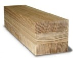 glulam window frame